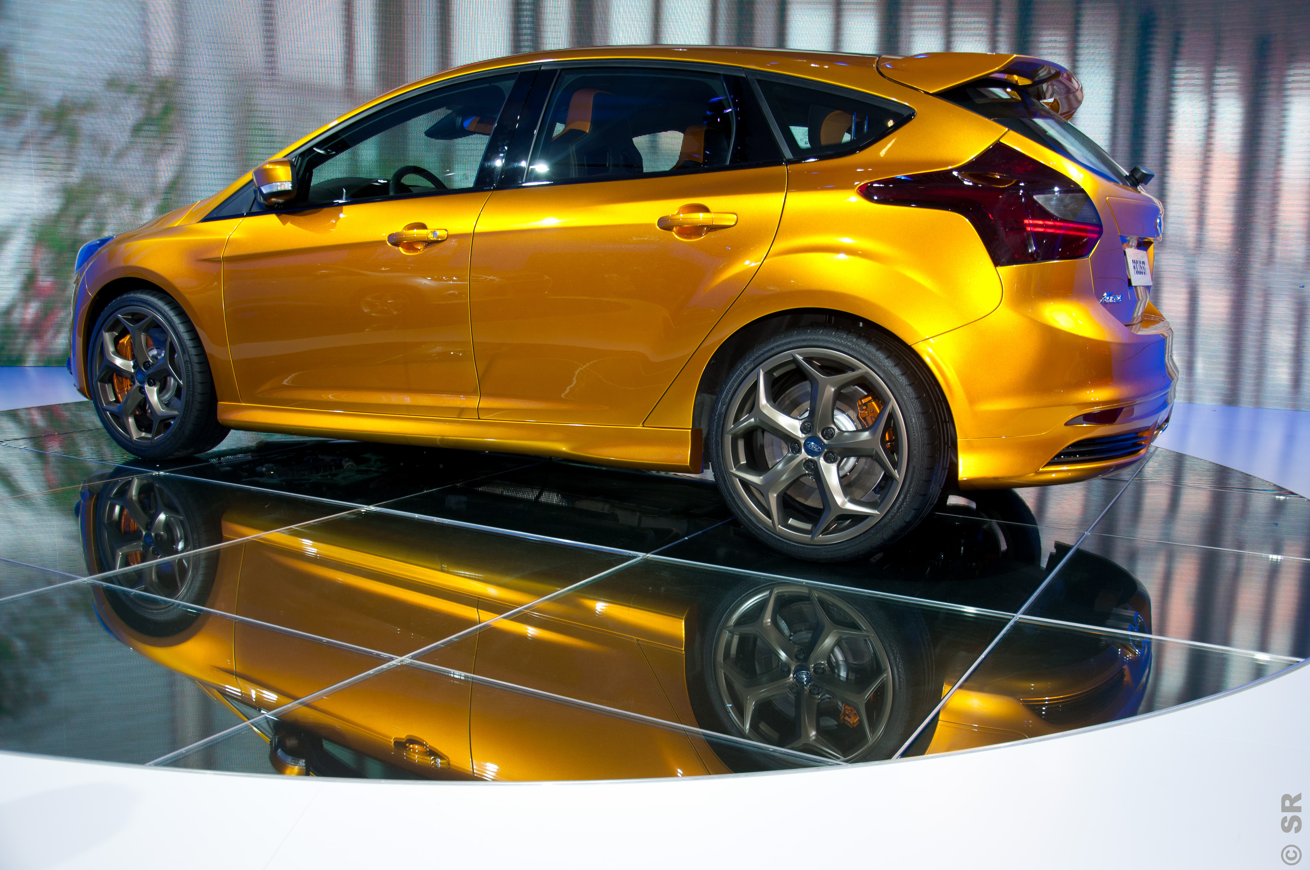 A Ford Focus III ST at the Paris Motor Show 2010.